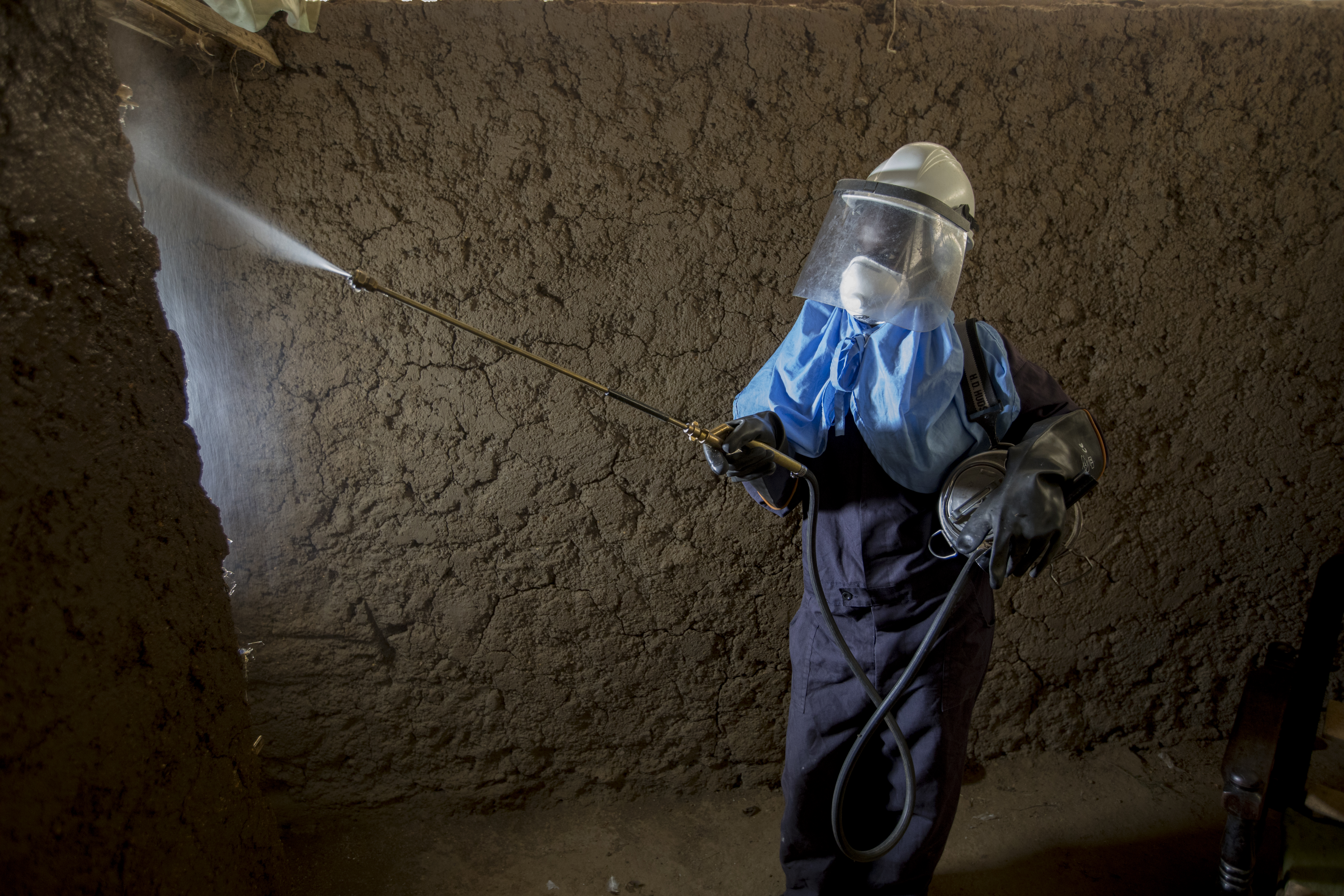 The sprayer, Caroline Obinju Ocholla, is 33 yrs old, married with 4 children - 5,8,10, and 12 years old. She currently volunteers as a CHV. She is doing this work to help the community but also to save money to help her family. She is motivated by the wages being paid for the work, the respect she recieves from the community (they trust her), her daughters and her spouse who is happy she is bringing in income and supports her. She also says community members prefer female sprayers. Some call her and specifically ask for her to spray their houses. In the future she hopes to be a hairdresser. Photo by Jessica Scranton/AIRS March 2017